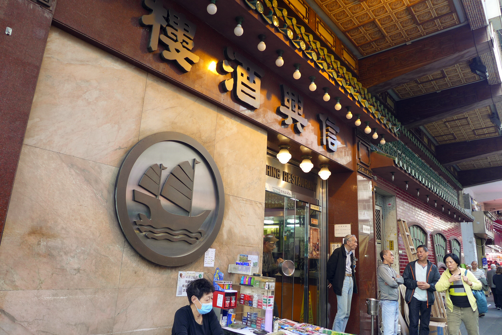 Shun Hing Restaurant Entrance view